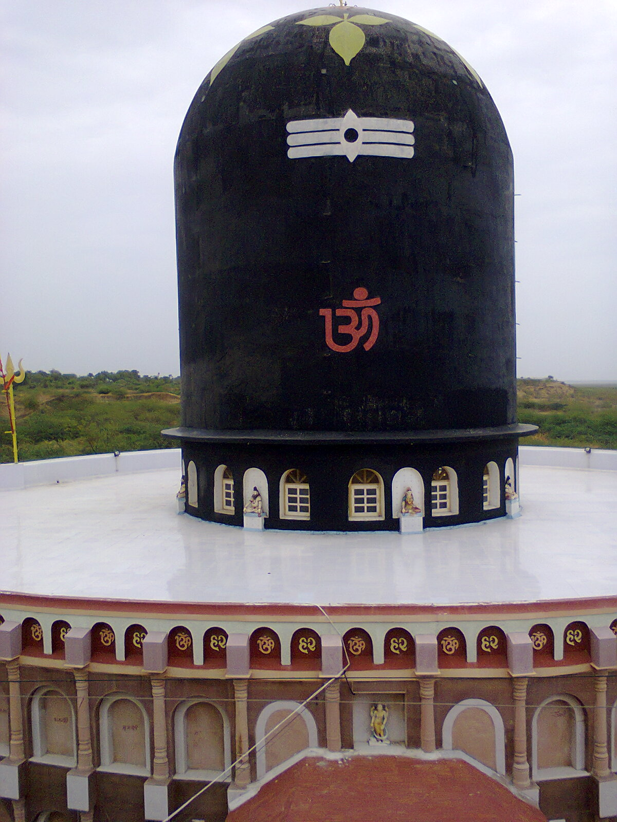 ShivLing